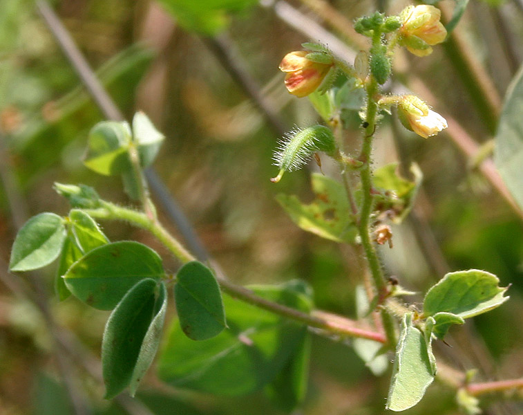 Chamaecrista absus (L.) H. S. Irwin & Barneby (syn. Cassia absus L.)- Jasmeejaz, Chaksu, chakushya, chimed- in Herbal Garden, in Rangareddy district of Andhra Pradesh, India.